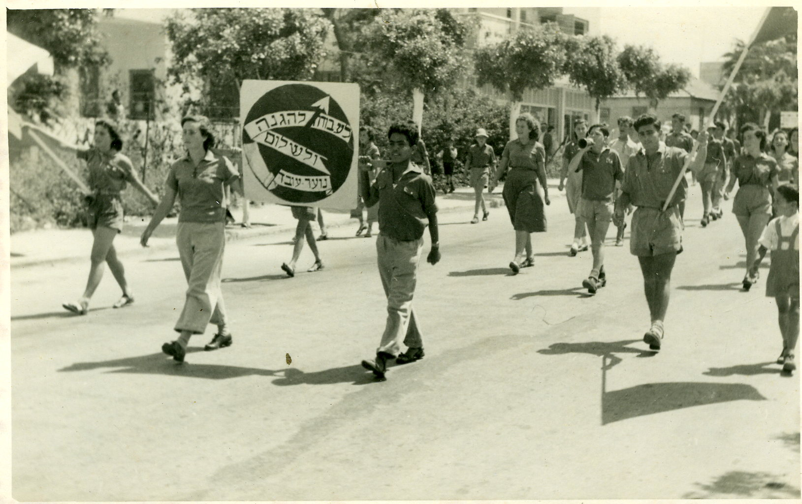 "HaNoar HaOved (Working Youth)" youth movment marching in May Day parade in Hertzelia